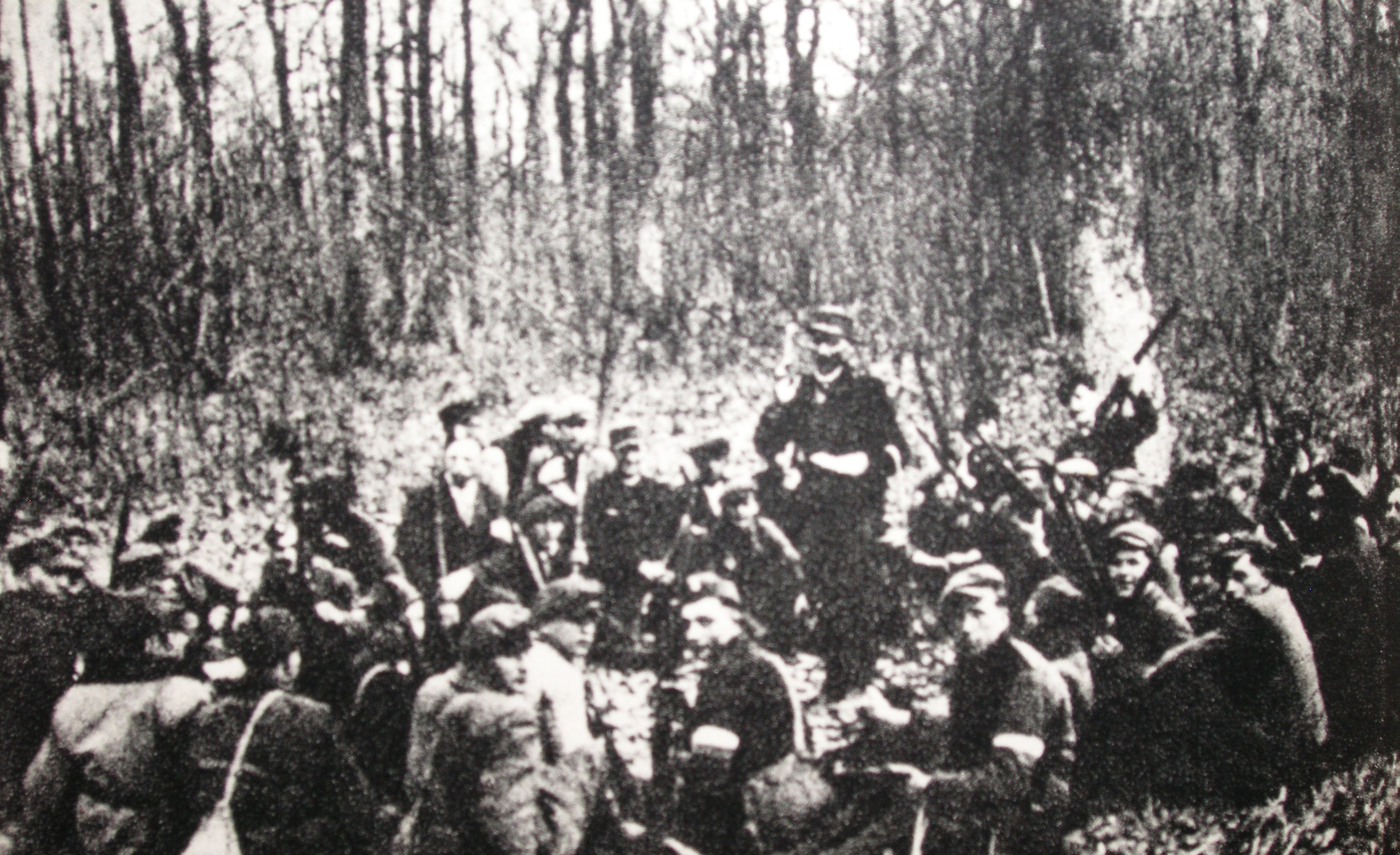 Kompania AK "Wiklina"